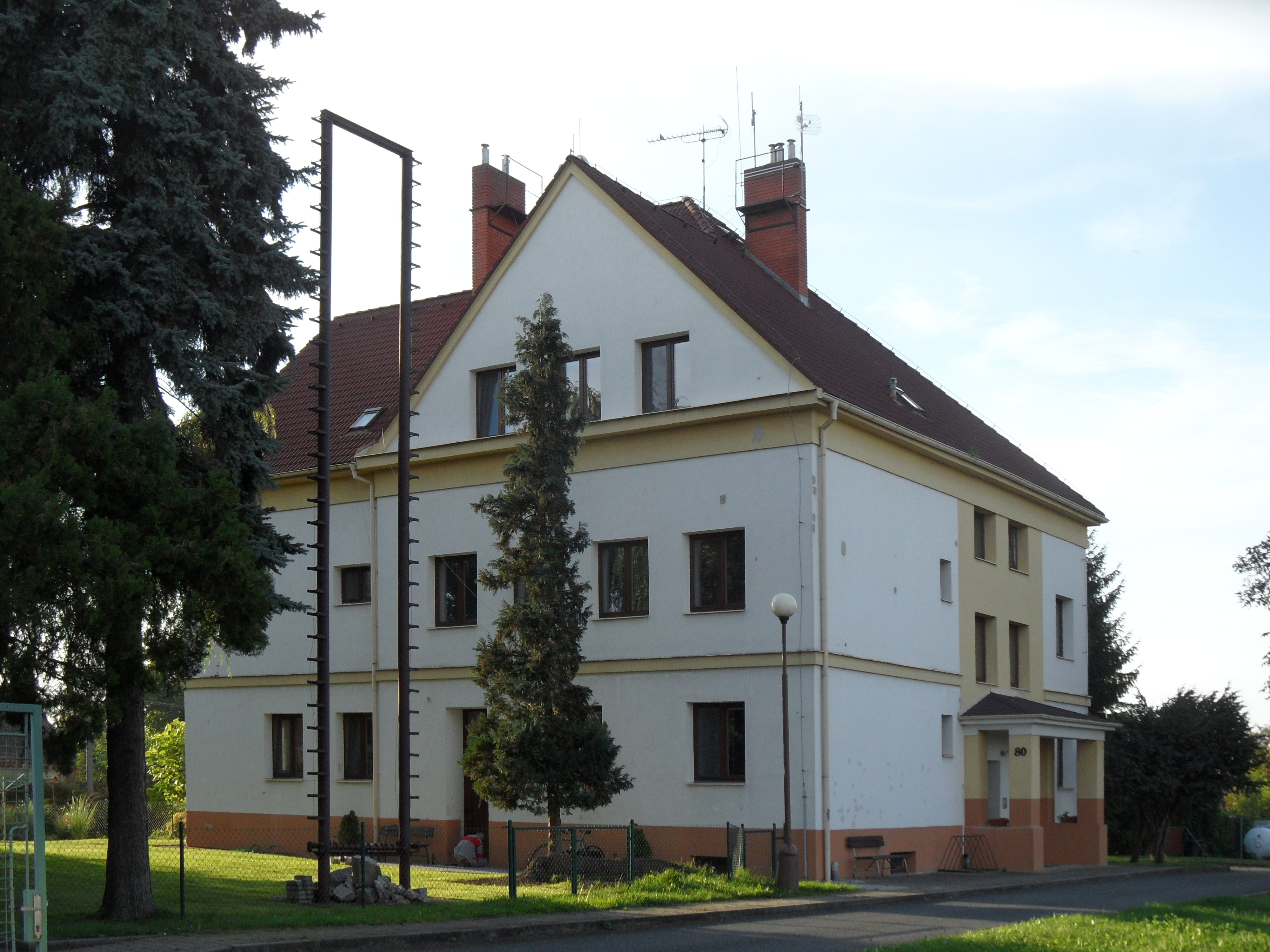 Chotouchov (Kořenice) A. Large House No 80: Overview, Kolín District, the Czech Republic.